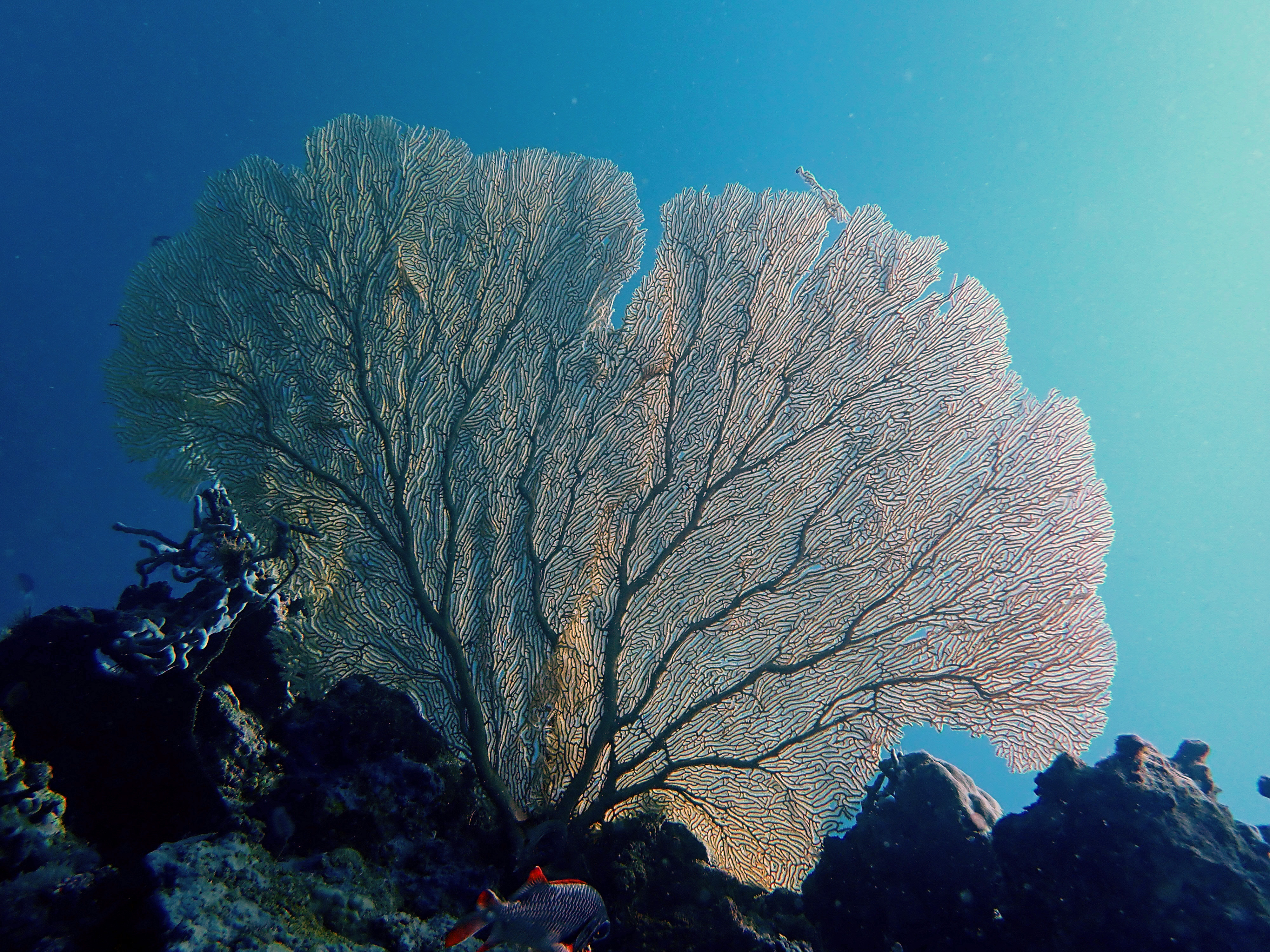 A giant sea fan Annella mollis, in the Marine natural park of Mayotte.